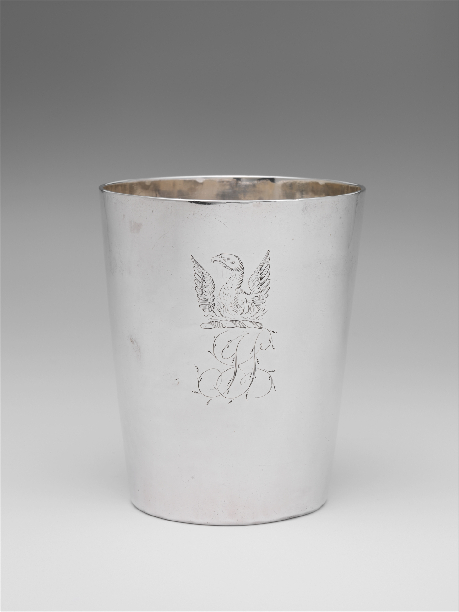 American; Beaker; Silver